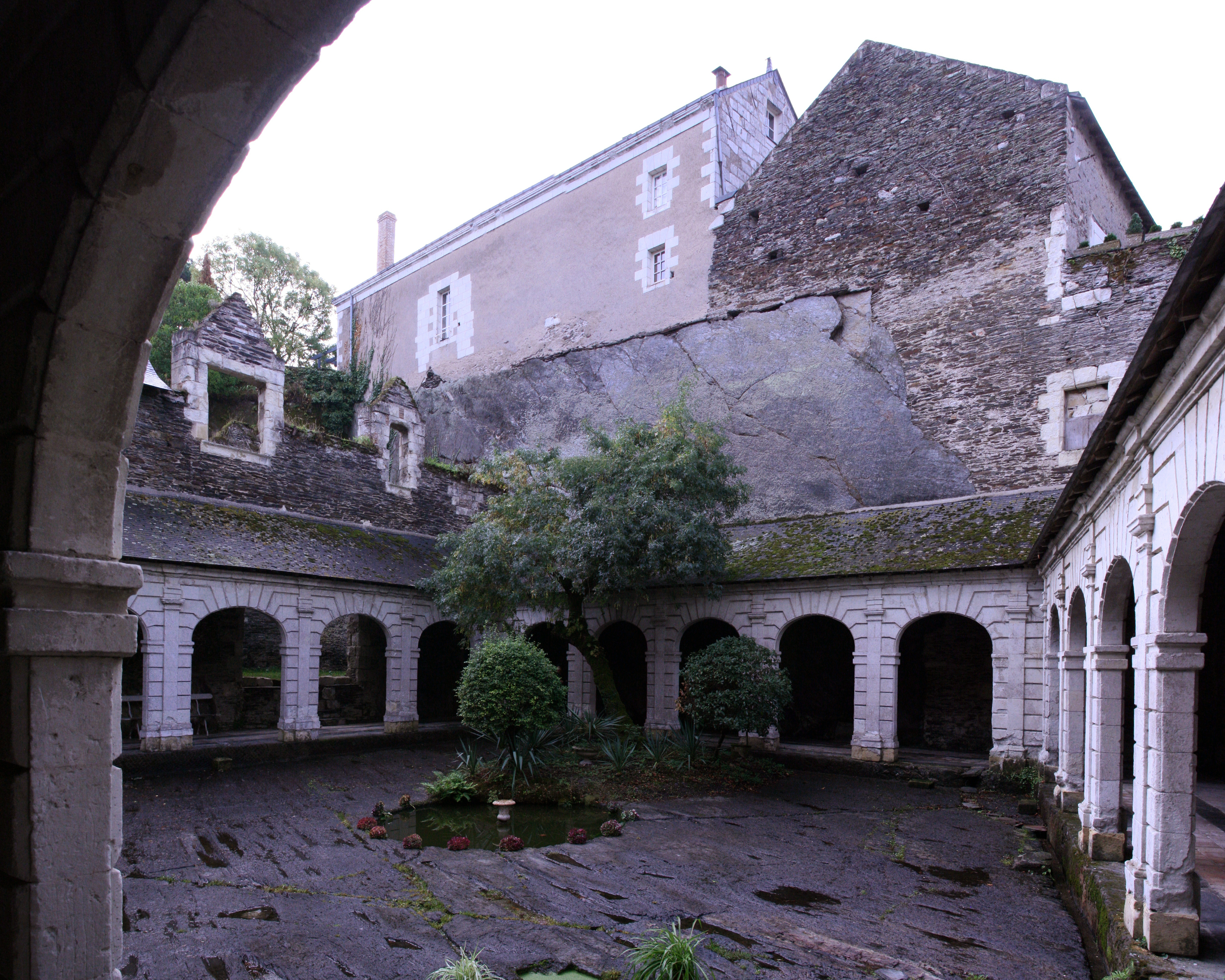 Cloister of the former convent of "La Baumette", Angers, Maine-et-Loire, Pays de la Loire, France.